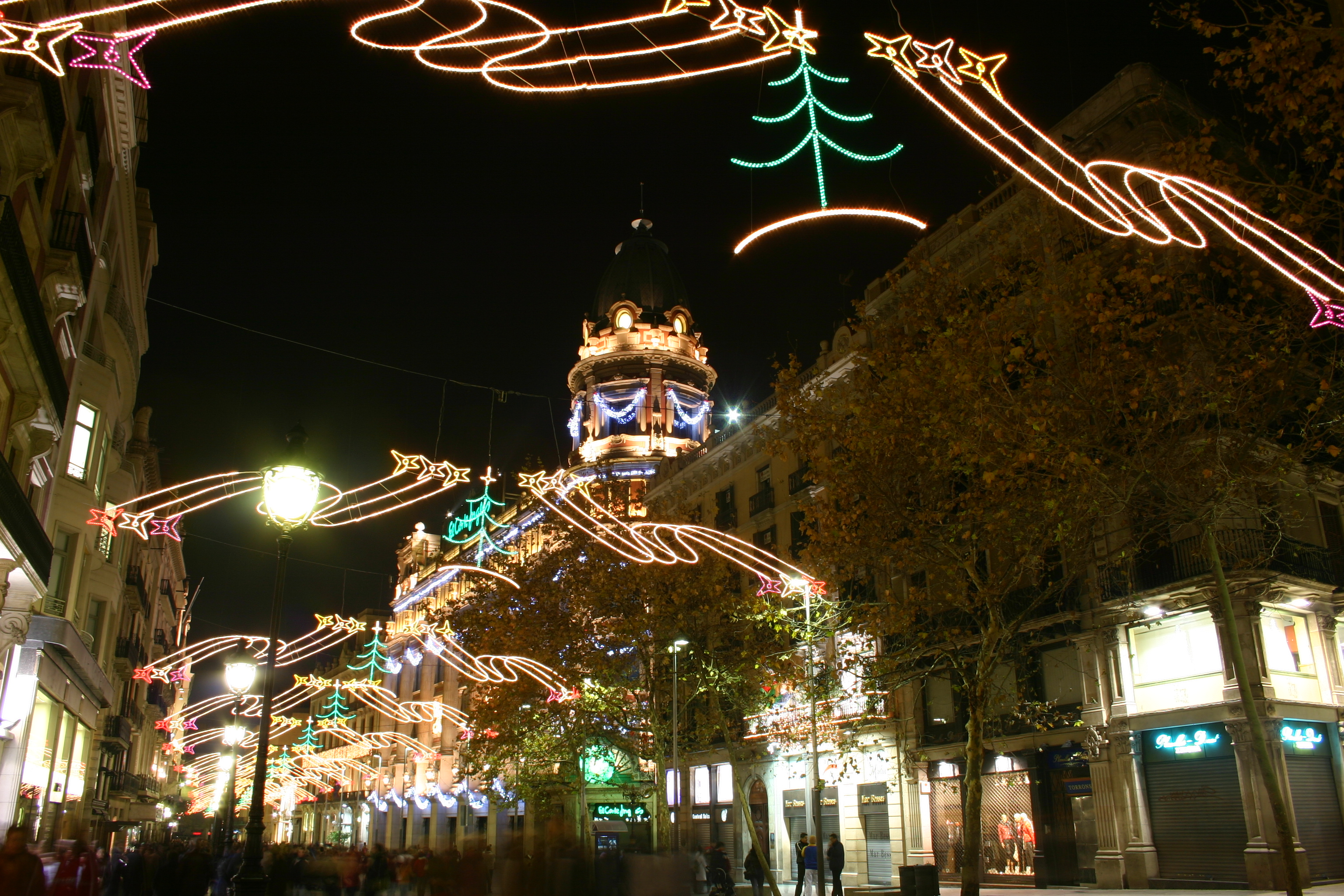 Calle/Street Porta de l'Angel: Christmas/Navidad 2005 at night